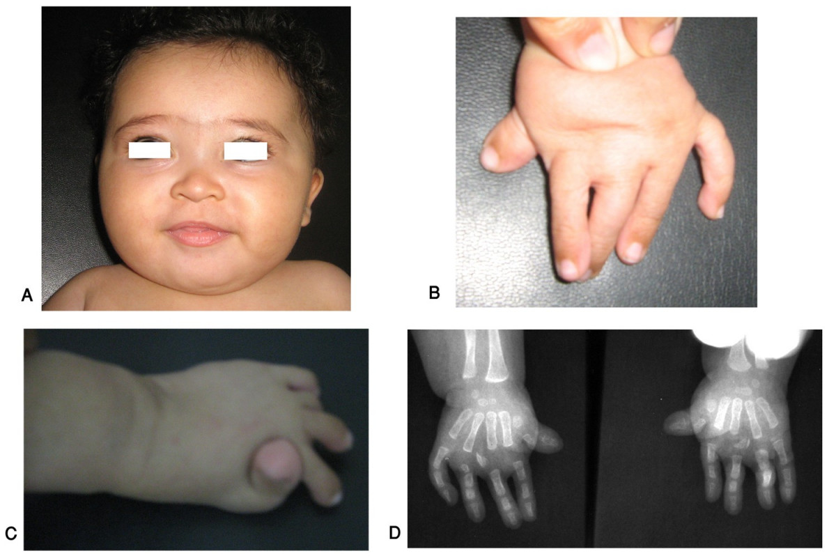 An Egyptian patient with Temtamy preaxial brachydactyly syndrome. Note round flat face (A), preaxial brachydactyly of hand and feet (B, C) and X-ray of both hands showing preaxial brachydactyly and hyperphalangism. (Limb Malformations & Skeletal Dysplasia Clinic, MSU, NRC).